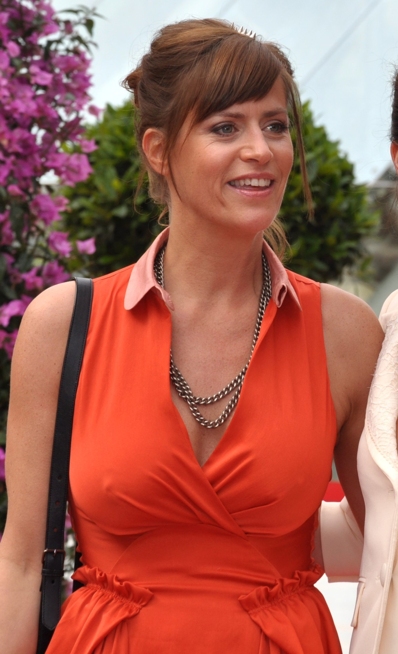 Anne Caillon at the 2013 Monte-Carlo Television Festival.